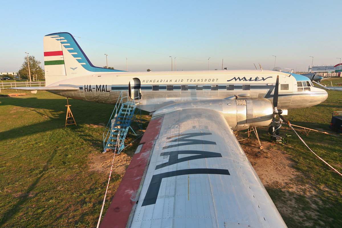 HA-MAL Ilyushin Il-14 at Ferihegy Airport Aviation Memorial Park